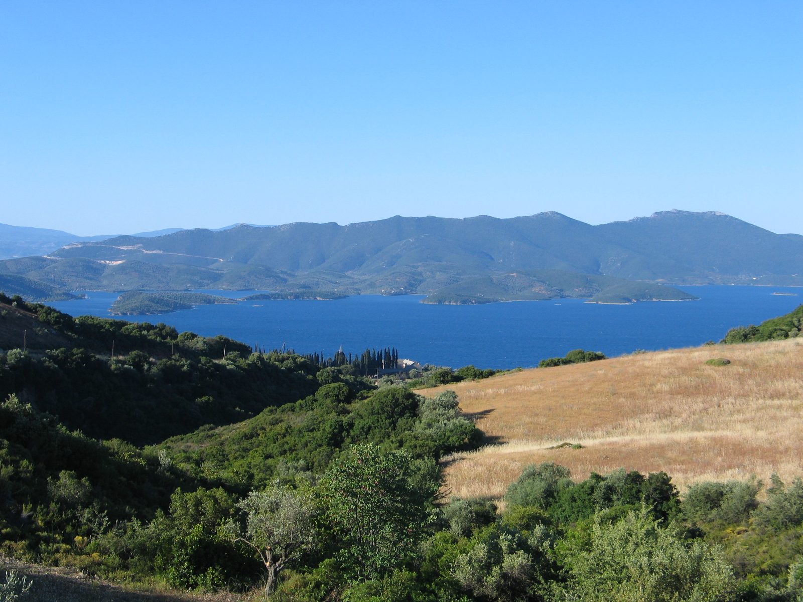 Southern half of the Greek peninsula pelion with the monastery Pau in the foreground